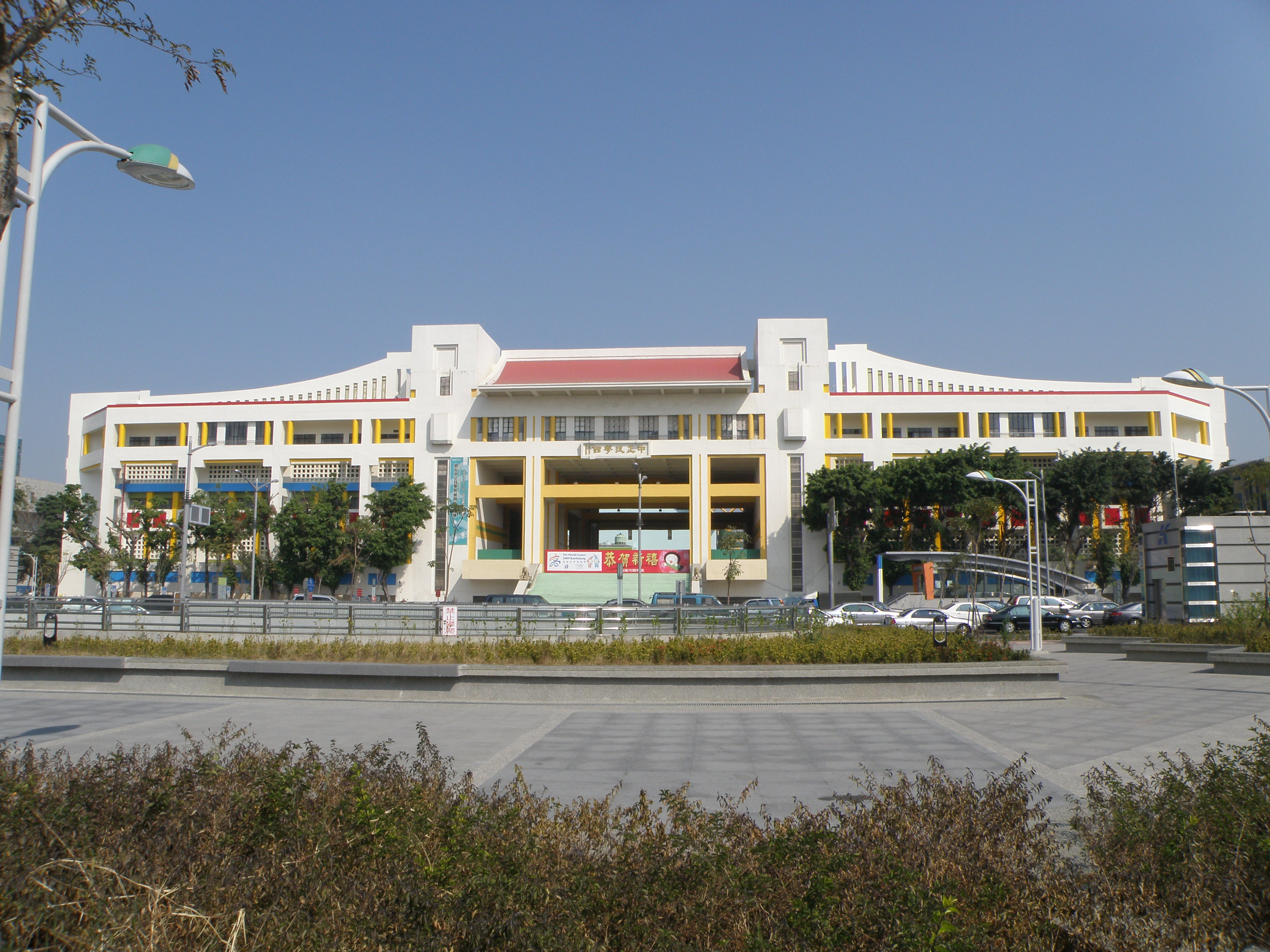 Chung Cheng Martial Arts Stadium, Lingya District, Kaohsiung City, Taiwan